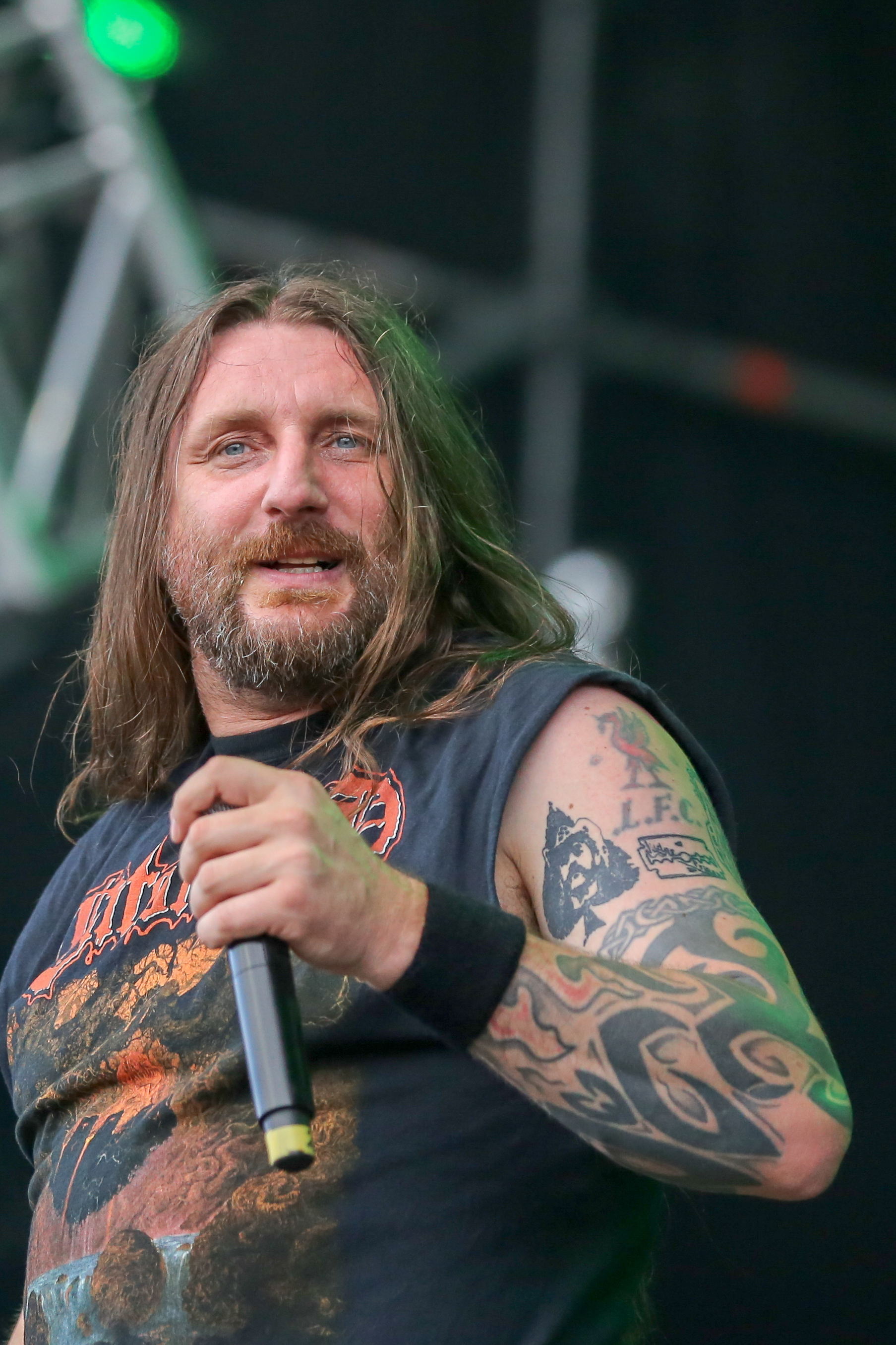 Przystanek Woodstock in 2017.